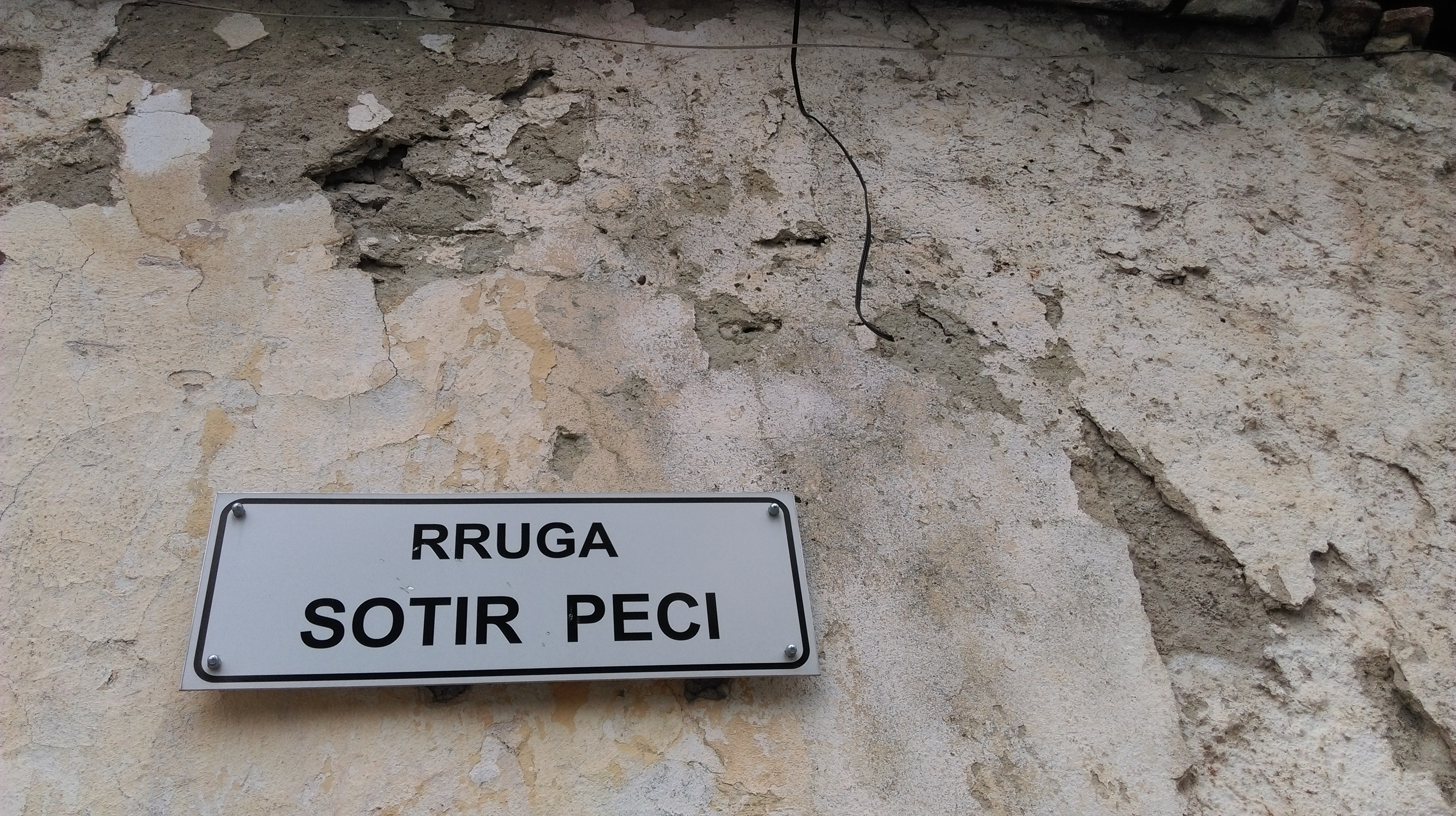 Sotir Peçi street in Korçë